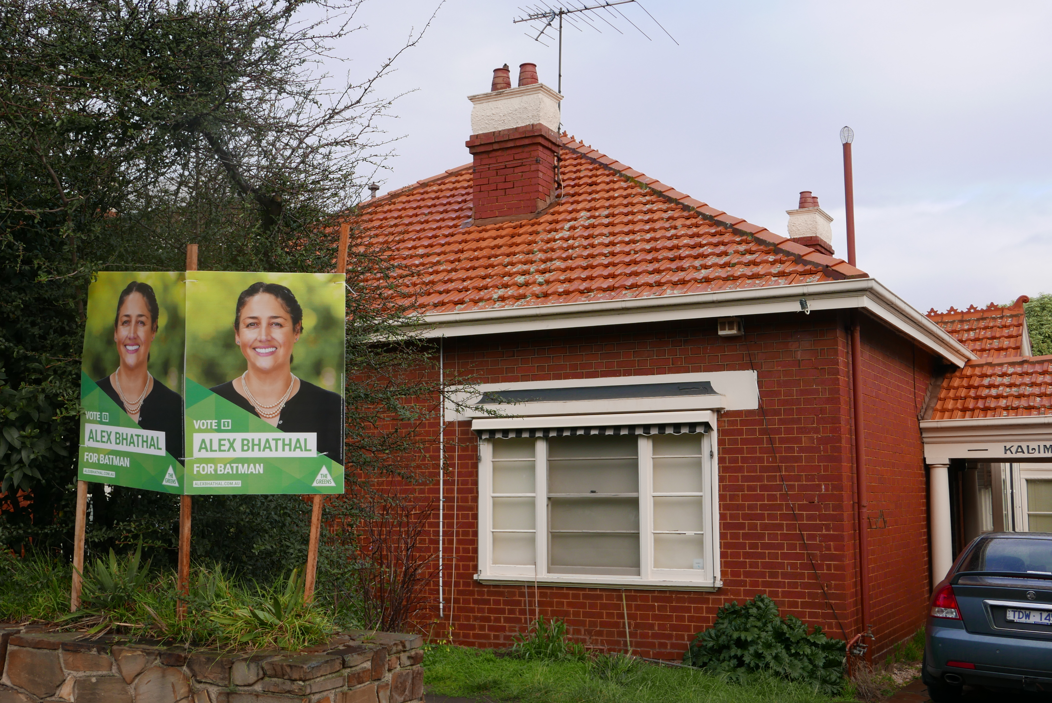 172 Clarke Street, Northcote, Victoria, Australia. This house was purchased in December 2013 for A$2.3 million by David Feeney, the Australian Labor Party representative for the Division of Batman. This house gained notoriety and was subject to much political interest during the Australian federal election, 2016 as Feeney failed to declare this house on his parliamentary register of interests. Furthermore, the tenants of the house authorised the placement of a billboard promoting rival Greens candidate Alex Bhathal.